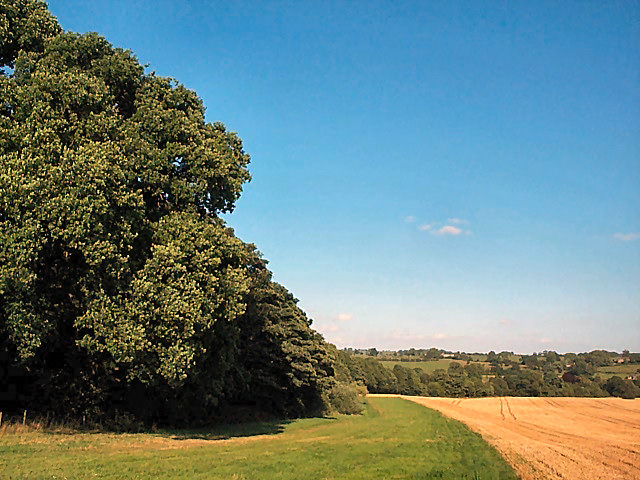 Farnley Estate land, nr Farnley